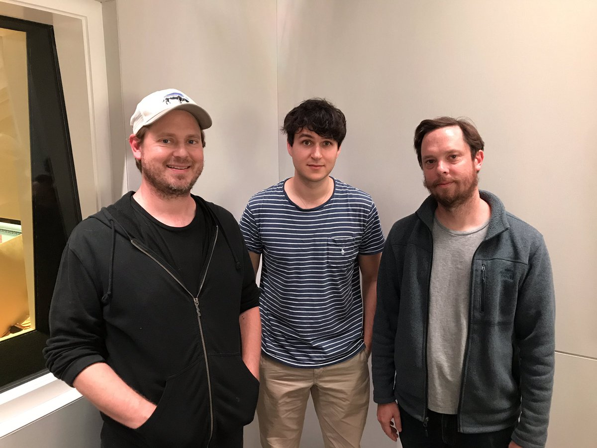 The Crew with Tim Heidecker